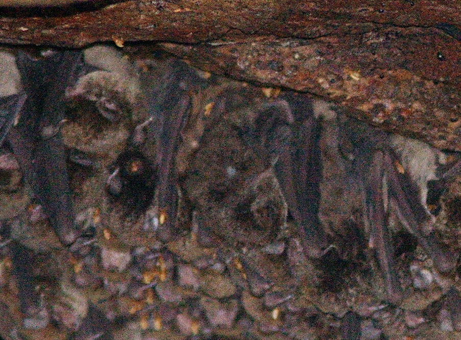 Roosting little bent-wing bats, Miniopterus australis, wild animals